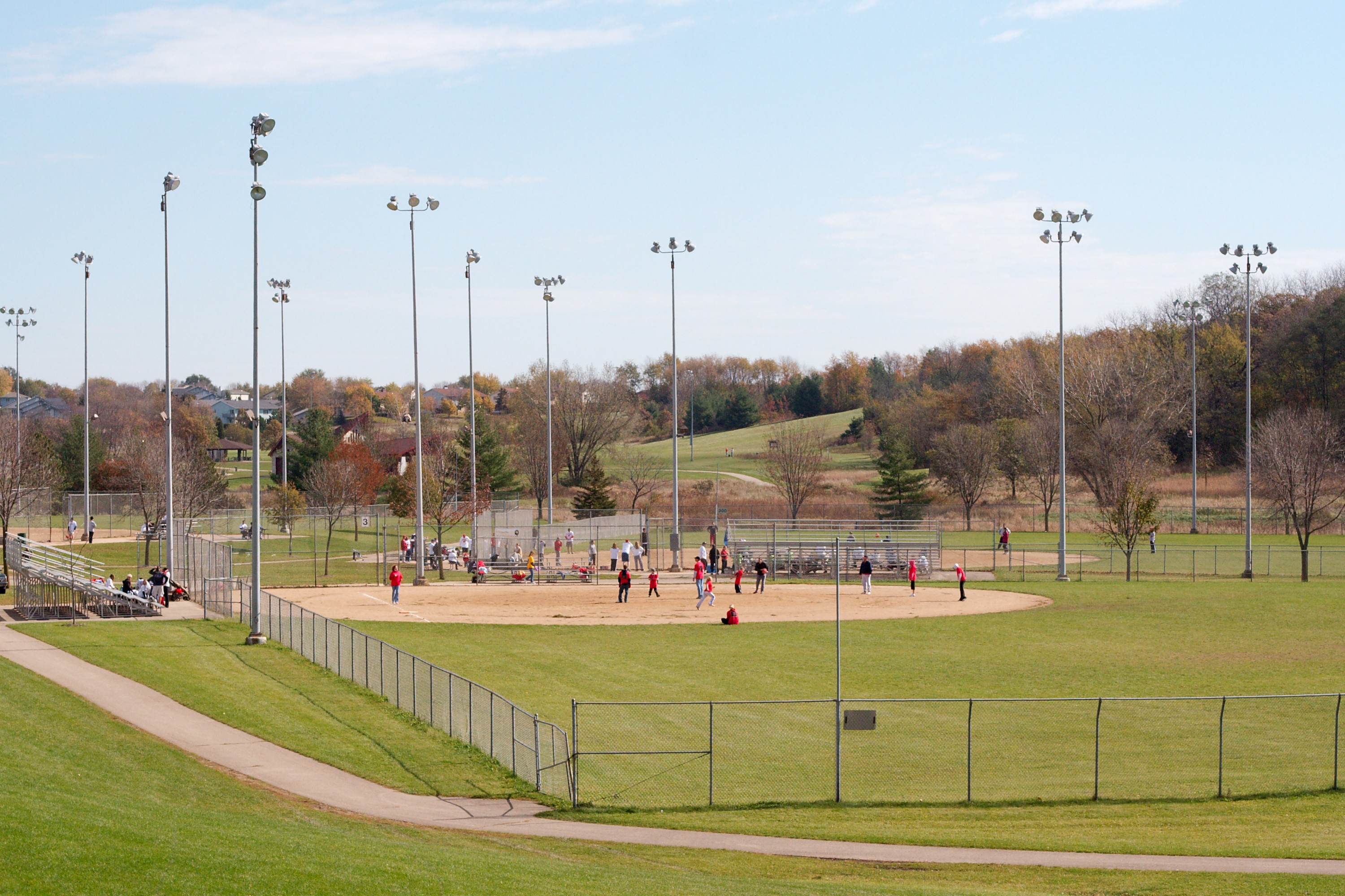 Taken at a park in Madison, Wisconsin